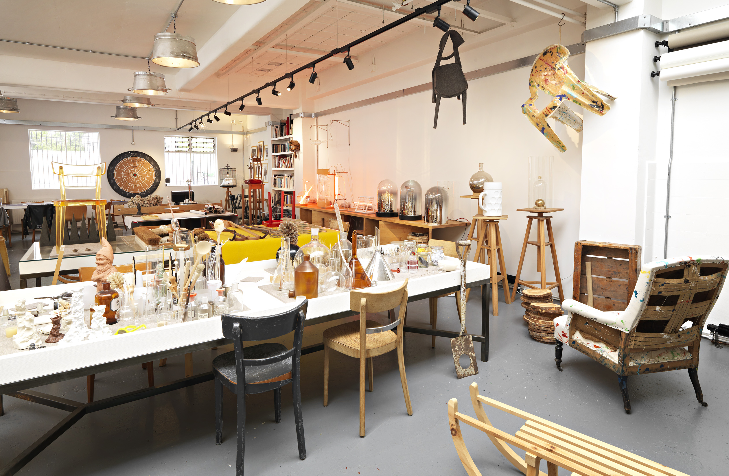 Copyright: rolf sachs fun ction. Photo by Byron Slater